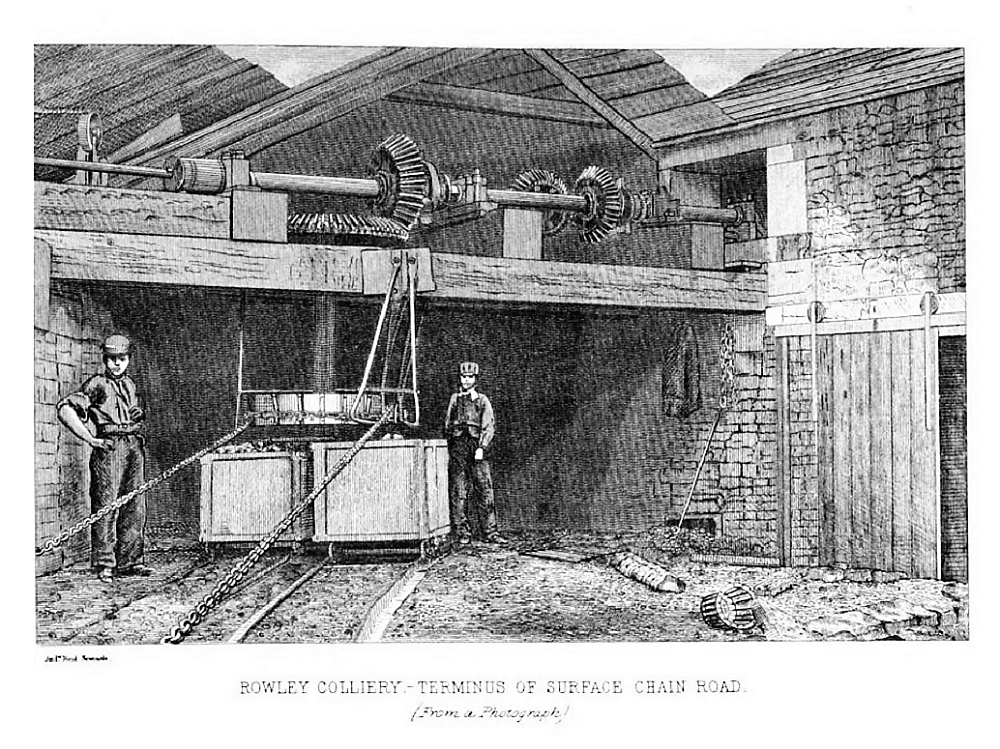 The terminus of the ginny track / chain road at Rowley Colliery c.1868. From